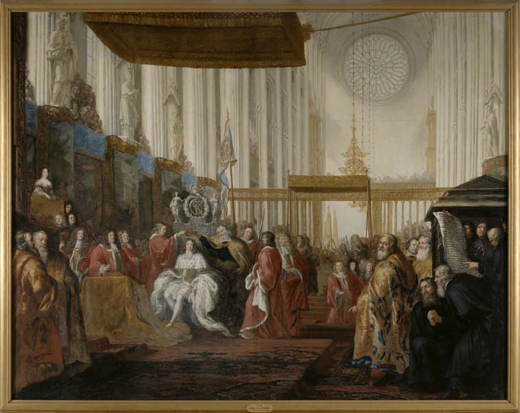 The Coronation of king Charles XI in Uppsala Cathedral painting by David Klöcker Ehrenstrahl. Painting in Nationalmuseum, inventory number: NMDrh 180